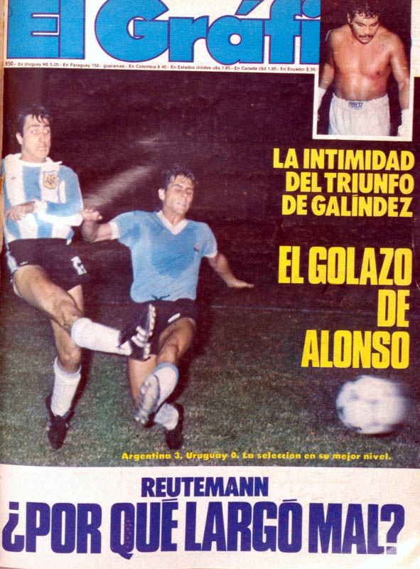 Argentine player Norberto Alonso shooting in a friendly match v. Uruguay. Argentina won 3-0 in La Bombonera.